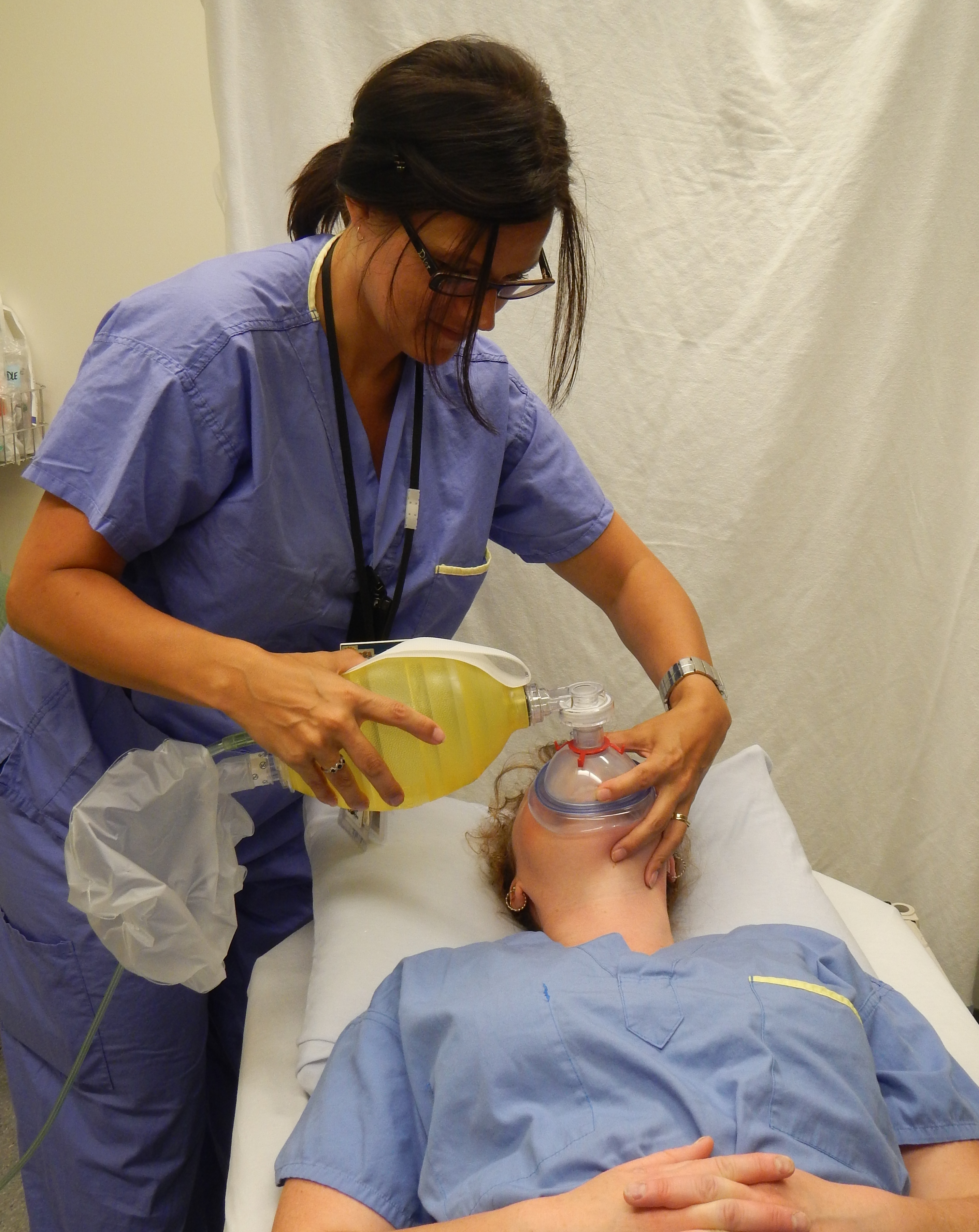 An example bag valve mask ventilation